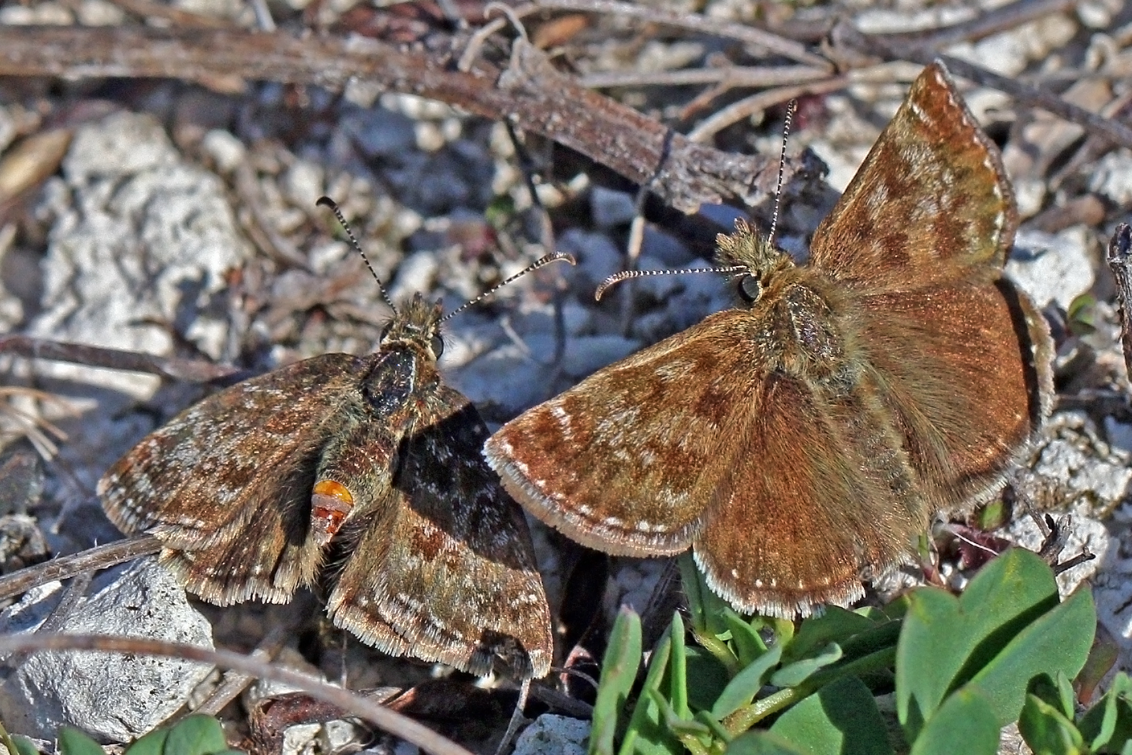 Dingy skippers (Erynnis tages) courting, Pitstone Quarry, Buckinghamshire